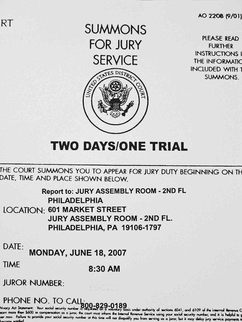 A summons for jury duty in a United States district court